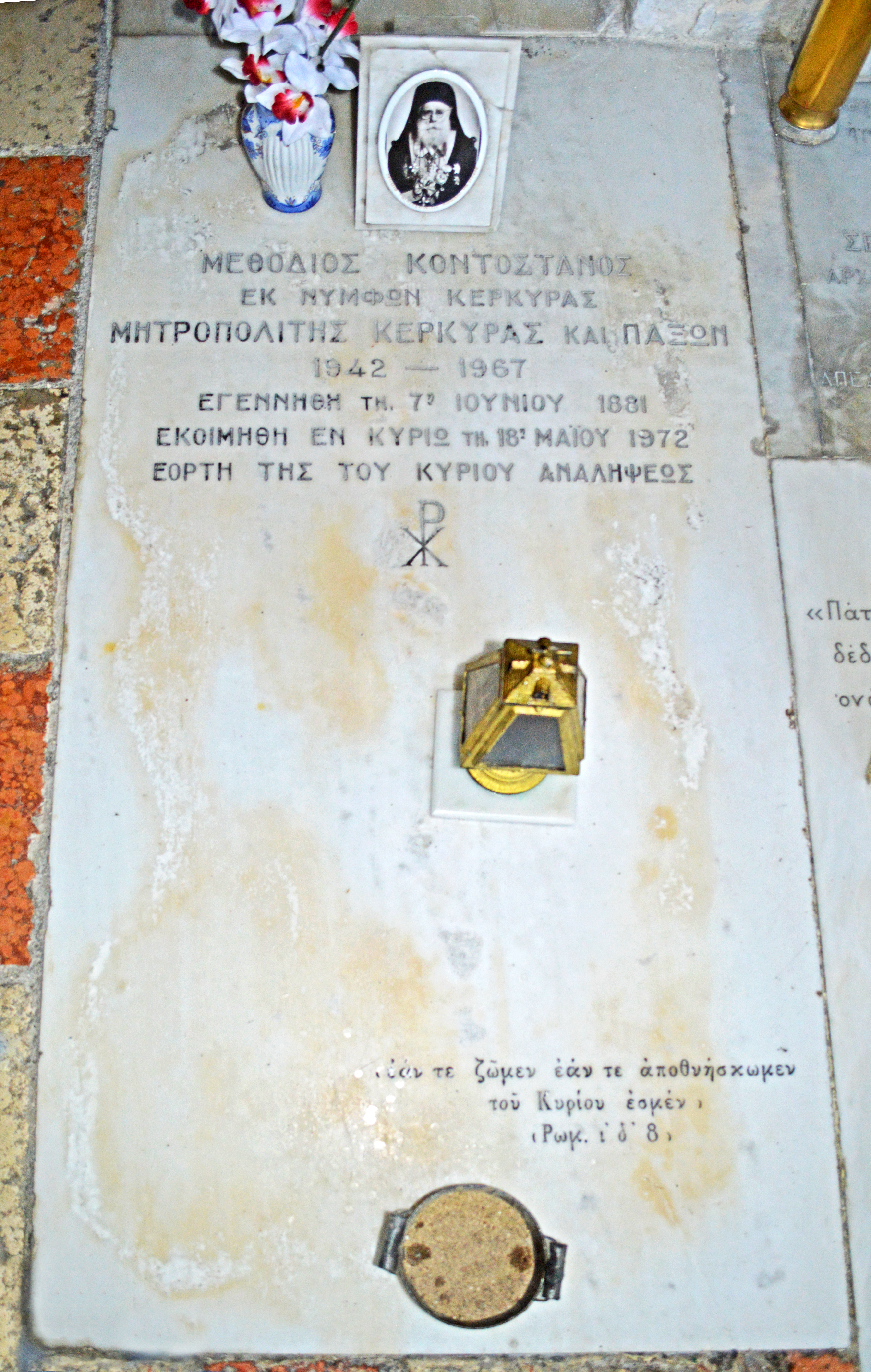 Corfu. Monastery Platitera. Tomb of Methodius (Kontostanos) Metropolitan of Kerkyra